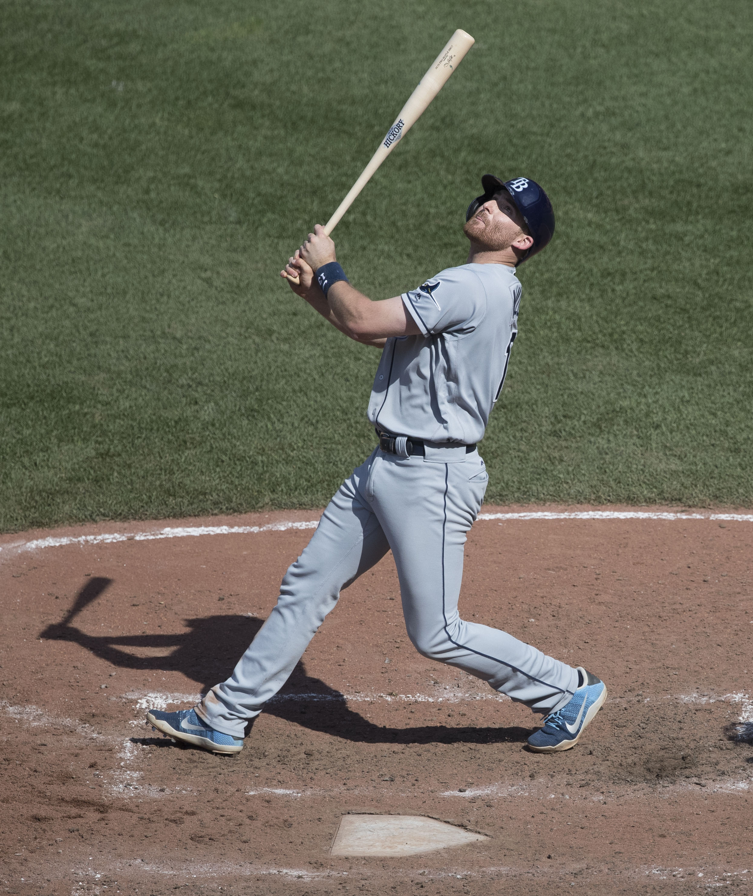 Rays at Orioles 6/26/16